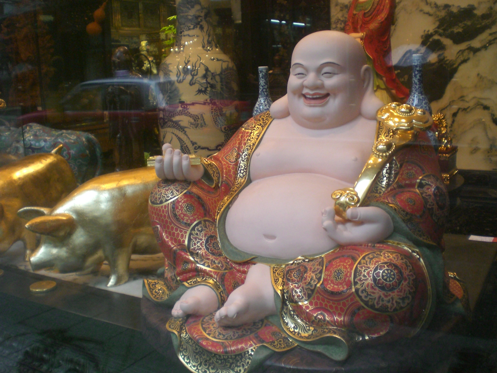 Laughing Buddha